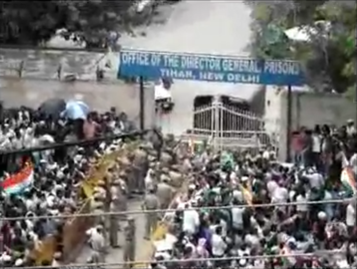 Thousands of people marched towards Tihar jail o 17 August 2011 to support Anna Hazare who was supposedly illegally arrested by Govt on 16-8-11. Caputured by Swaranjit Singh.